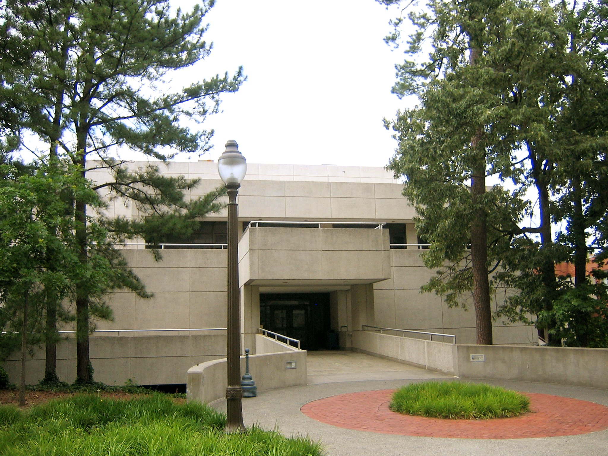 Teer Building at Duke University